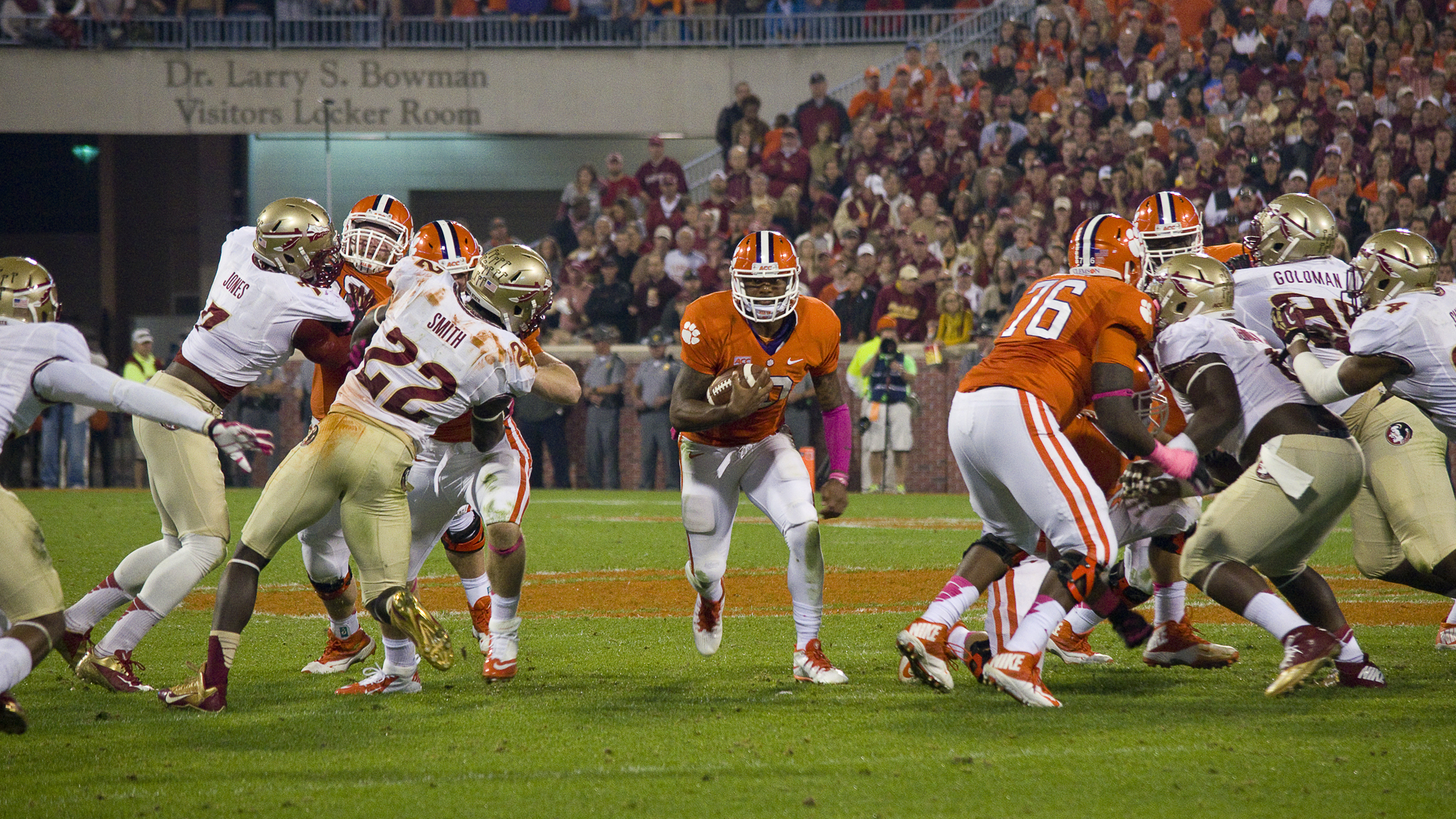 Clemson v. Florida State - 19 October 2013